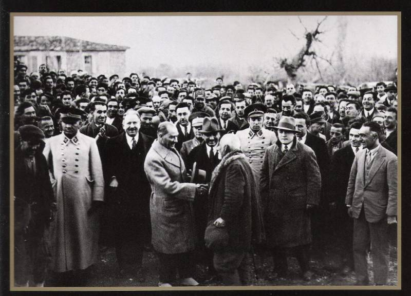 Kemal Atatürk (or alternatively written as Kamâl Atatürk, Mustafa Kemal Pasha until 1934, commonly referred to as Mustafa Kemal Atatürk; 1881 – 10 November 1938) was a Turkish field marshal, revolutionary statesman, author, and the founding father of the Republic of Turkey, serving as its first President from 1923 until his death in 1938. He undertook sweeping progressive reforms, which modernized Turkey into a secular, industrial nation. Ideologically a secularist and nationalist, his policies and theories became known as Kemalism. Due to his military and political accomplishments, Atatürk is regarded as one of the most important political leaders of the 20th century.